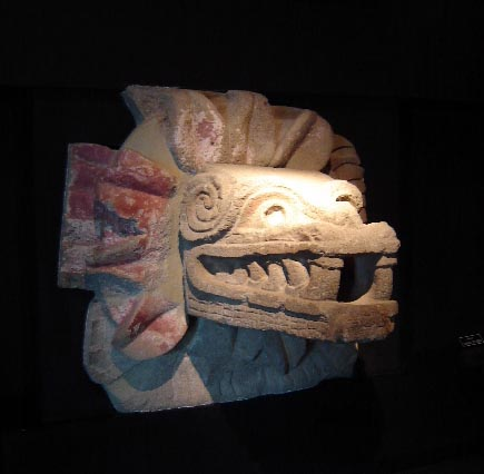 Feathered Serpant at Teotihucan. Photo by Mike Sharp.